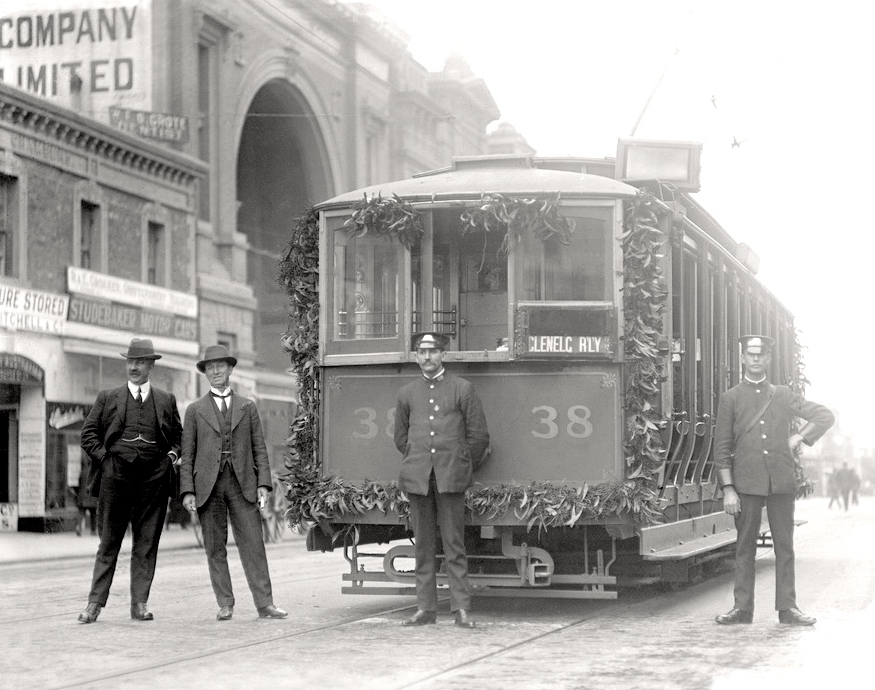 A Type A tram (nickname: "toast rack") of the Municipal Tramways Trust (MTT) in Currie Street, Adelaide. The driver and conductor are posed at the front of the tram. On the left is probably W.G.T. Goodman, chief engineer and general manager of the MTT, with the solid boots of a practising engineer. The unknown man second from left is wearing a spray of wattle in his lapel and the tram front is garlanded with wattle leaves, indicating the photo was taken on Wattle Day, 1 September 1917. The tram is facing east, 100 metres west of the intersection with King William Street, down which it will run. The sign "Glenelg R'l'y" referred to its destination: the railway service that between 1914 and 1929 ran from near South Terrace to Glenelg.